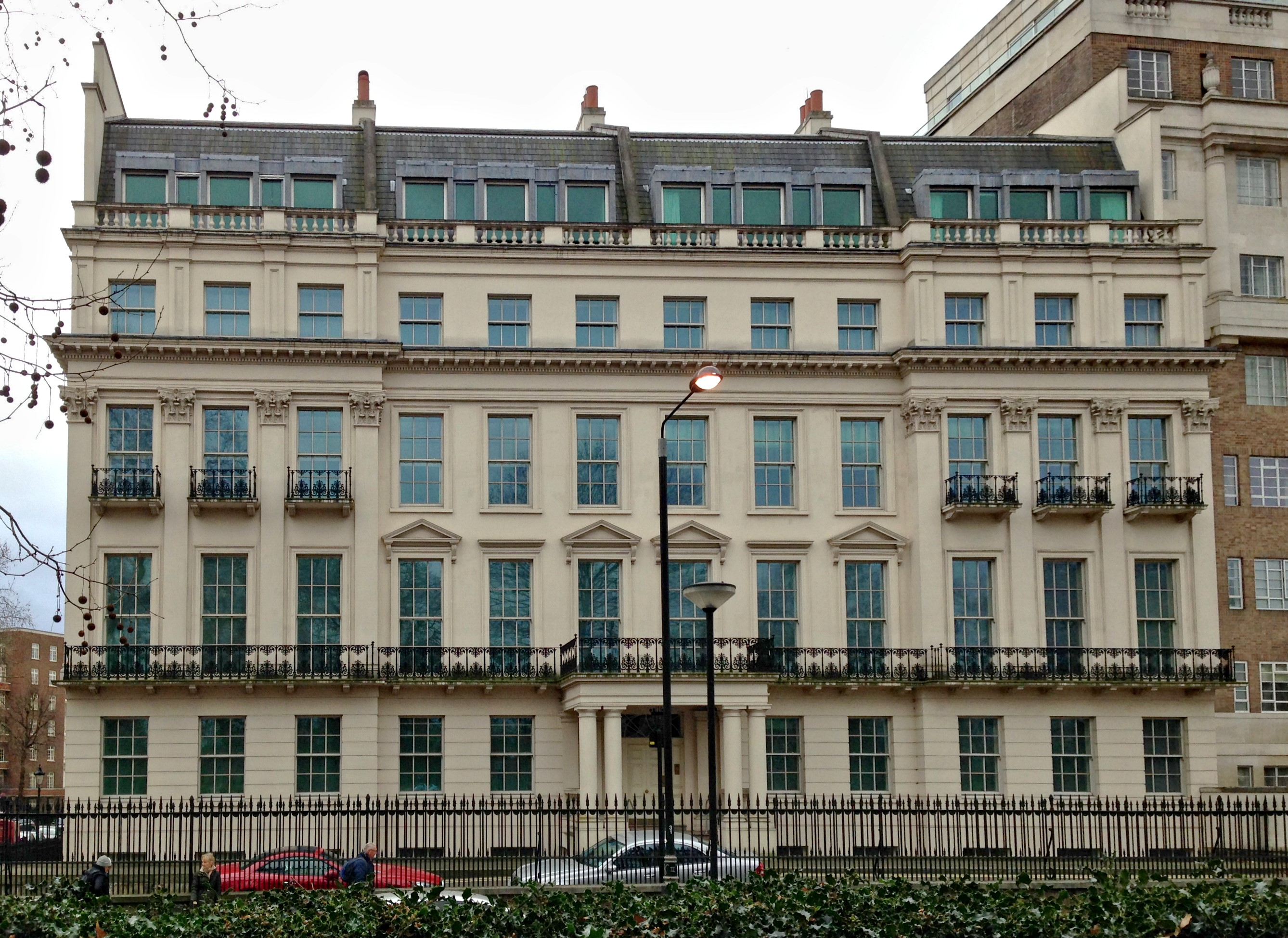 2-8a Rutland Gate in Kinghtsbridge, London.